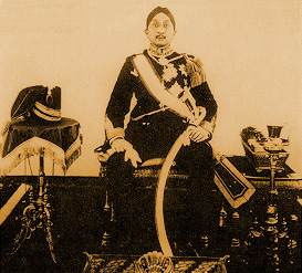 Hamengkubuwono VIII was Yogyakarta's sultan